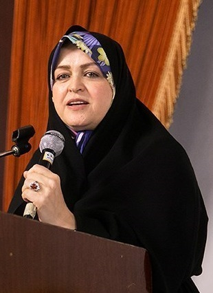 Hassan Rouhani's 2017 presidential campaign women rally in Tehran, Iran